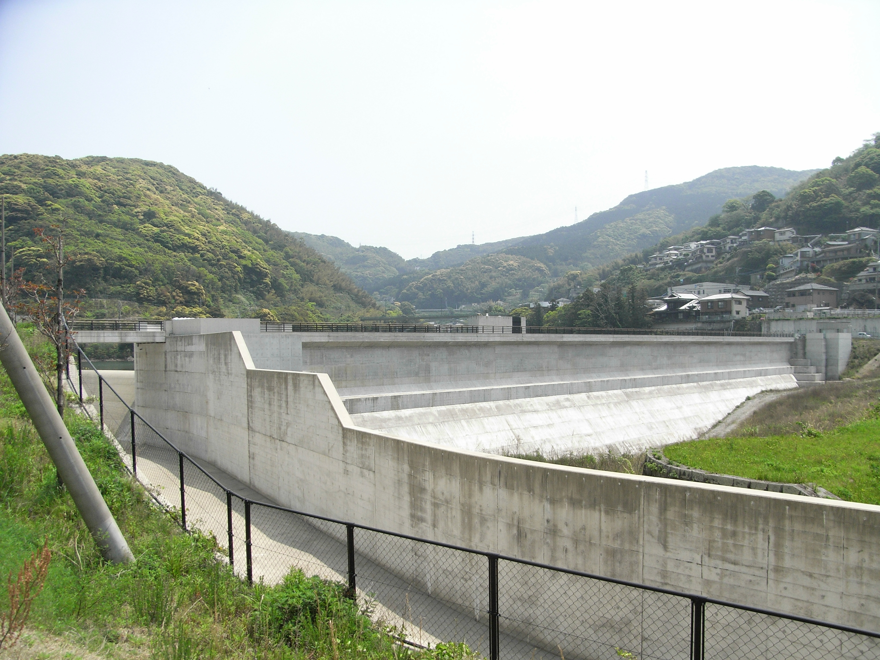 Hongochi koubu Dam(hongochigawa river/Nagasaki Pref./Japan)